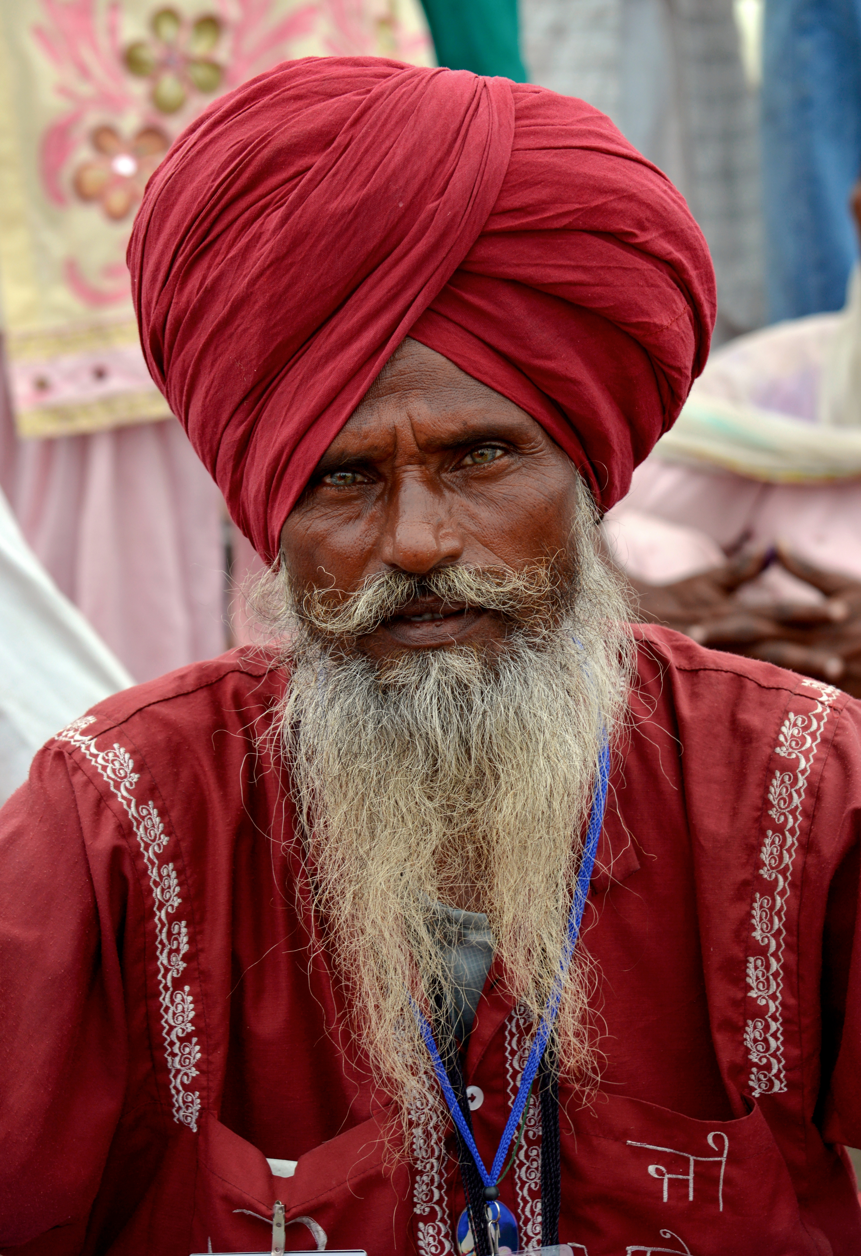 Sikh man, Agra, India.